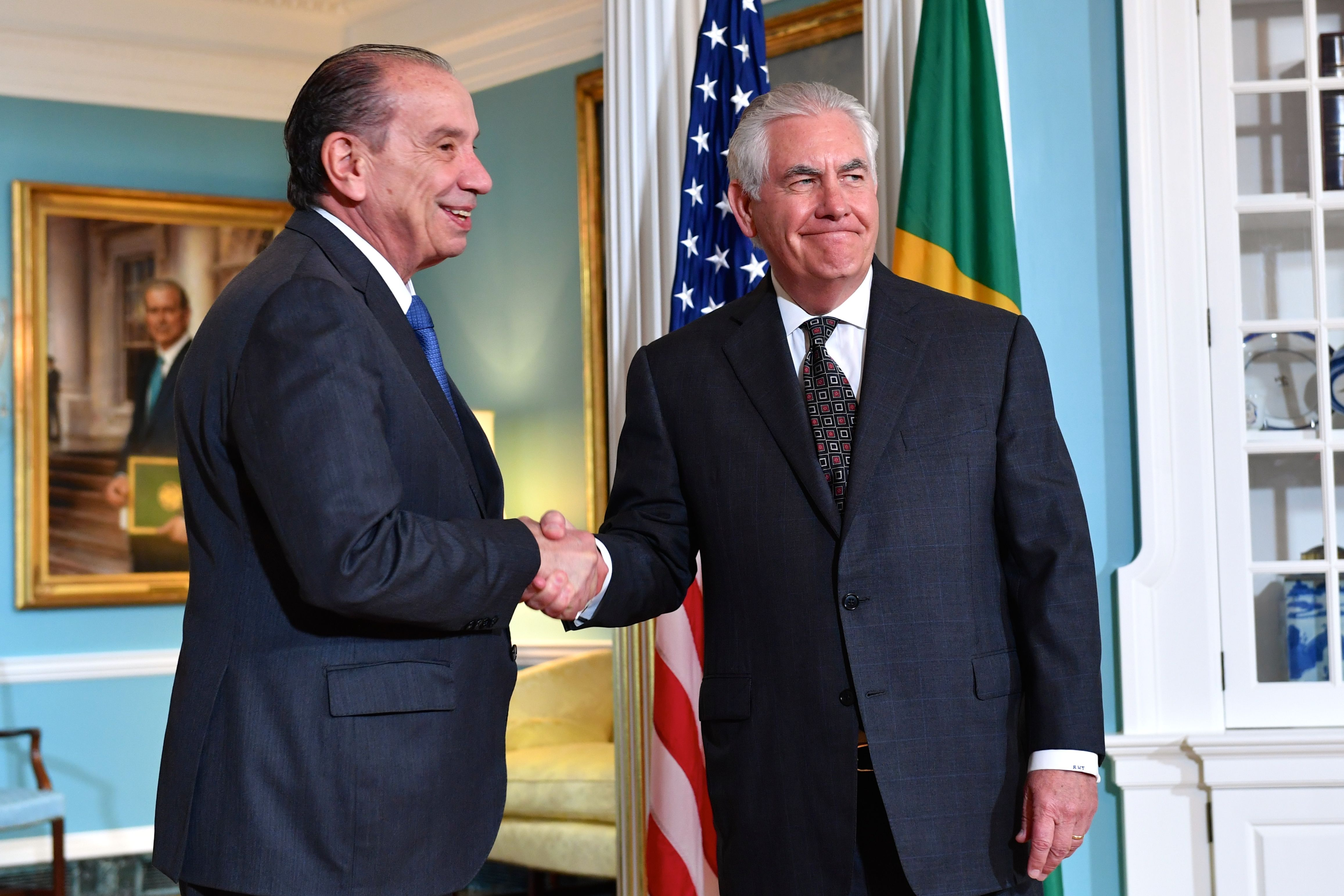 U.S. Secretary of State Rex Tillerson and Brazilian Foreign Minister Aloysio Nunes Ferreira pose for a photo before their bilateral meeting at the U.S. Department of State in Washington, D.C., on June 2, 2017. [State Department photo/ Public Domain]